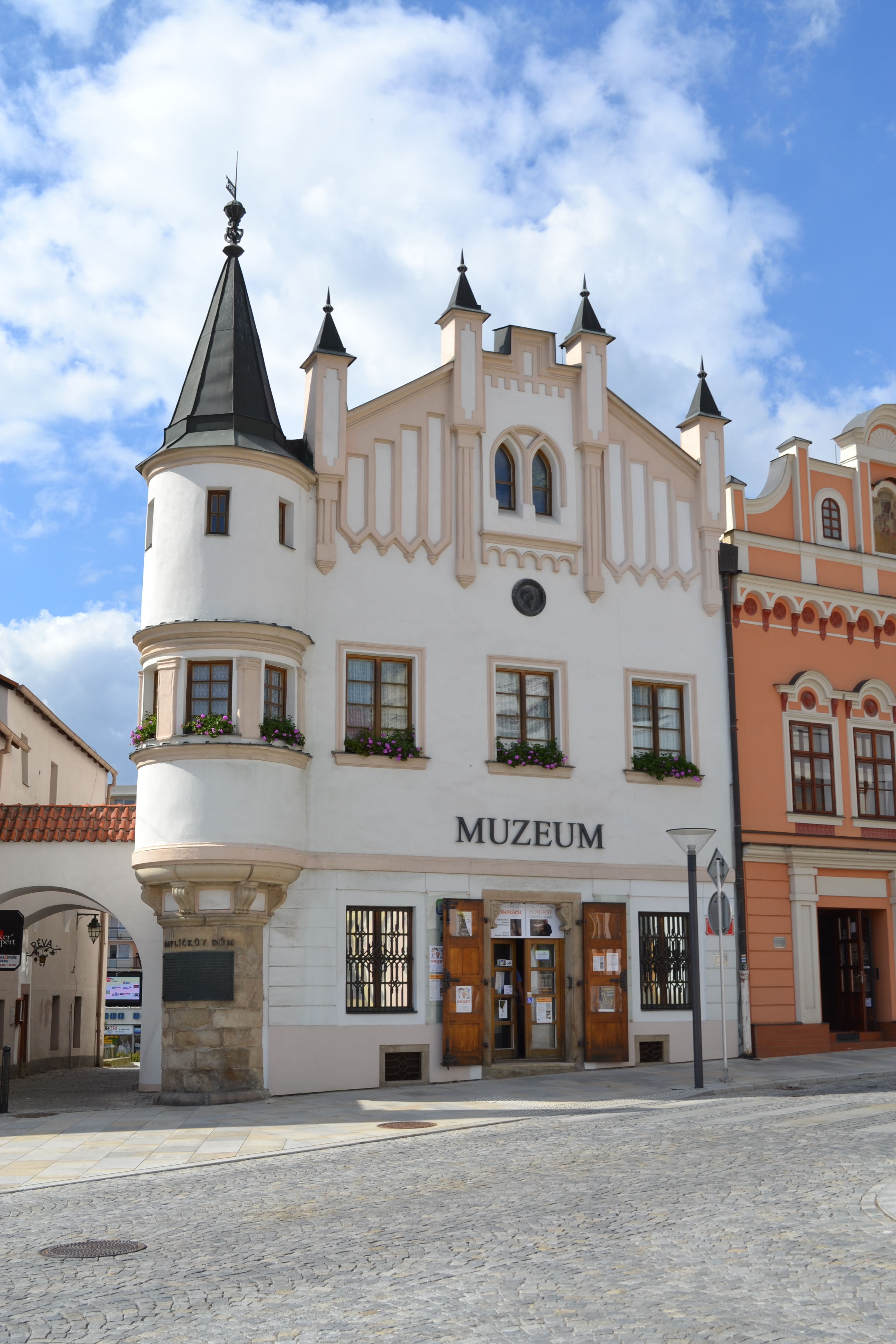 House in Horní street number 17 in Havlíčkův Brod, Czech Republic